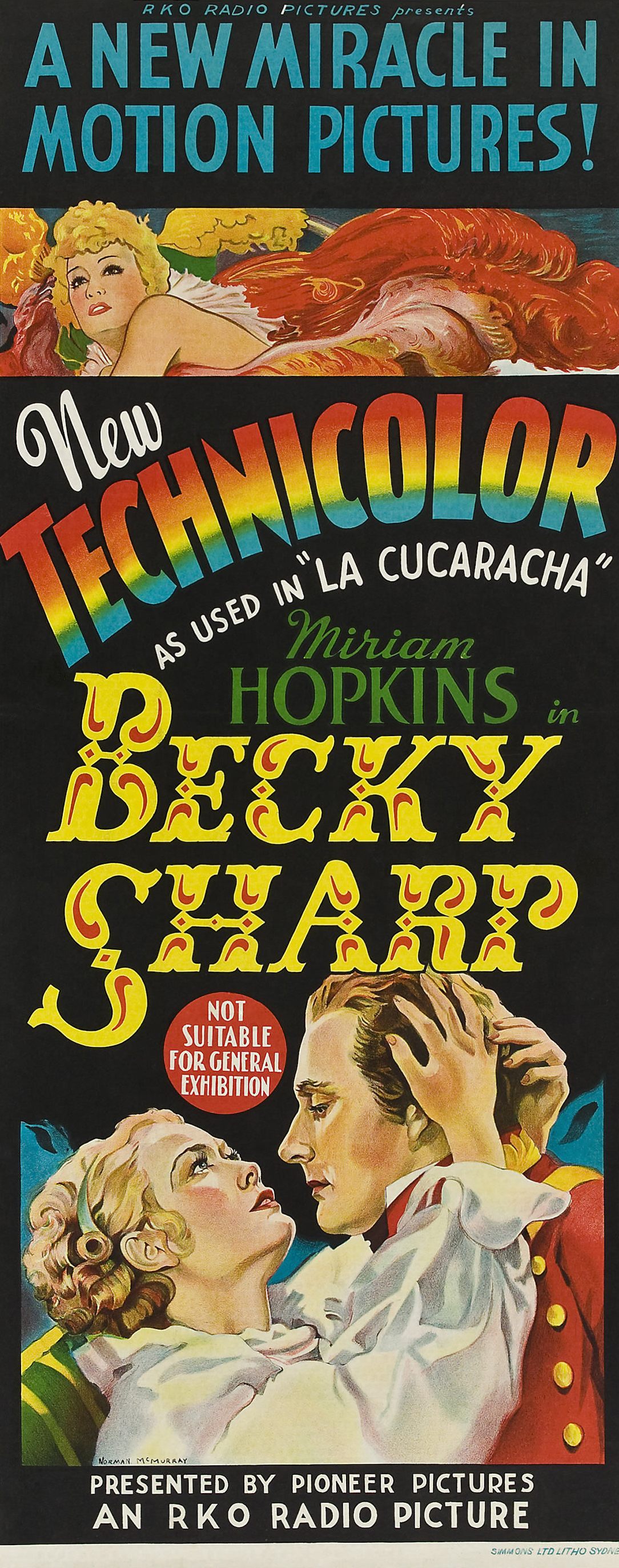 Becky Sharp - promotional poster